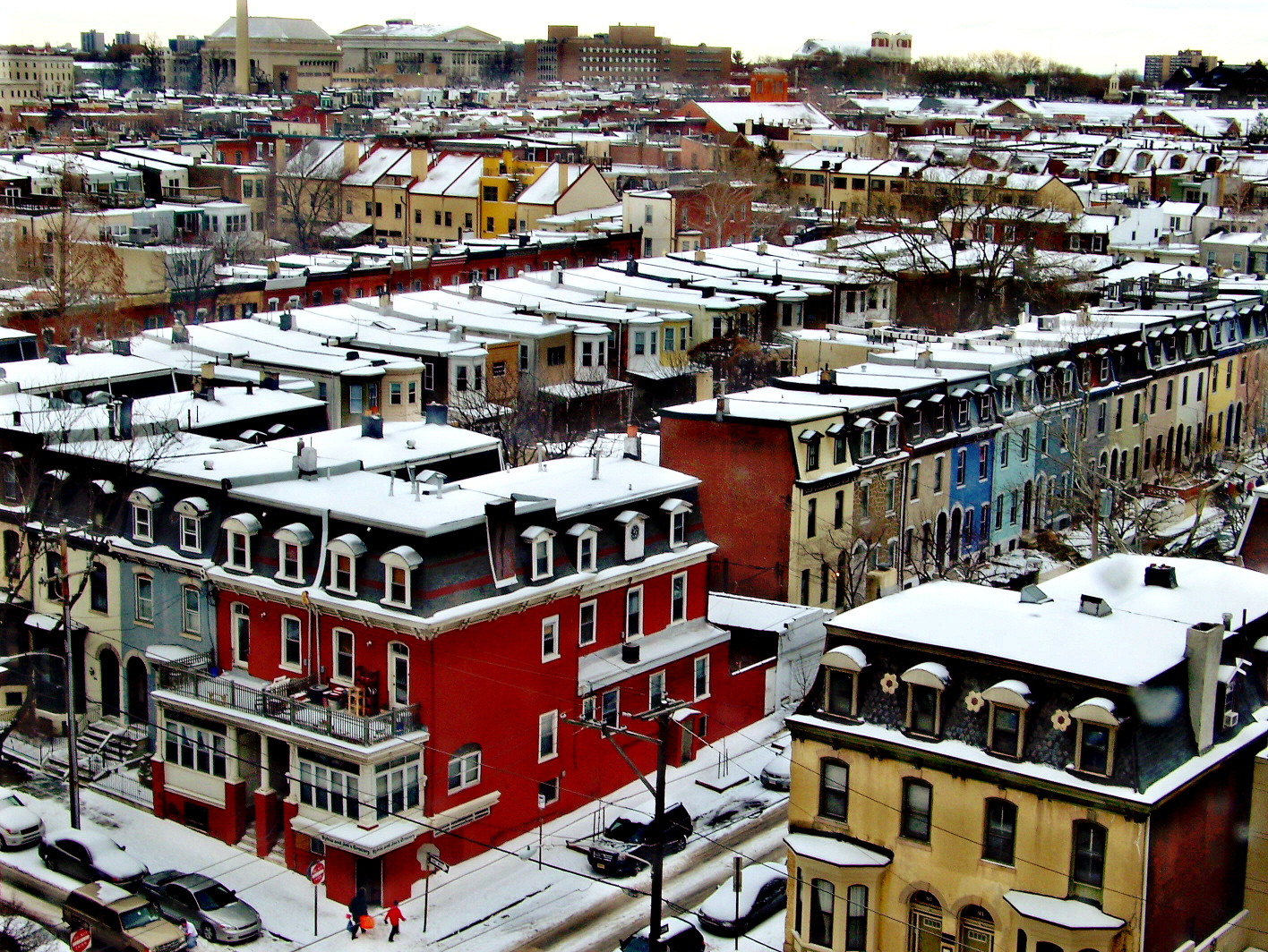 Fairmount neighborhood of Philadelphia, Pennsylvaniafrom the 11th floor deck of 2601 Pennsylvania Ave, Overlooking 26th and Aspen Streets intersection Looking northeast. The large building in the distance, with the colonnade, is the "Founder's Hall" building of Girard College.city snowscape